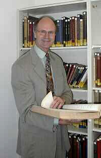 Manfred Clauss, german Professor for Ancient History Manfred Clauss, deutscher Althistoriker